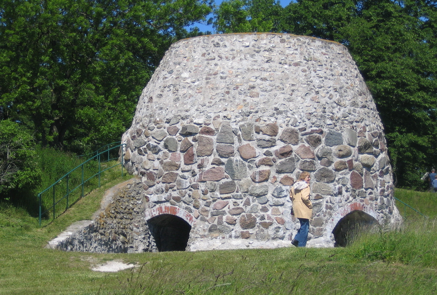 Lime kiln in Smyghamn, the most southern tip of Sweden.